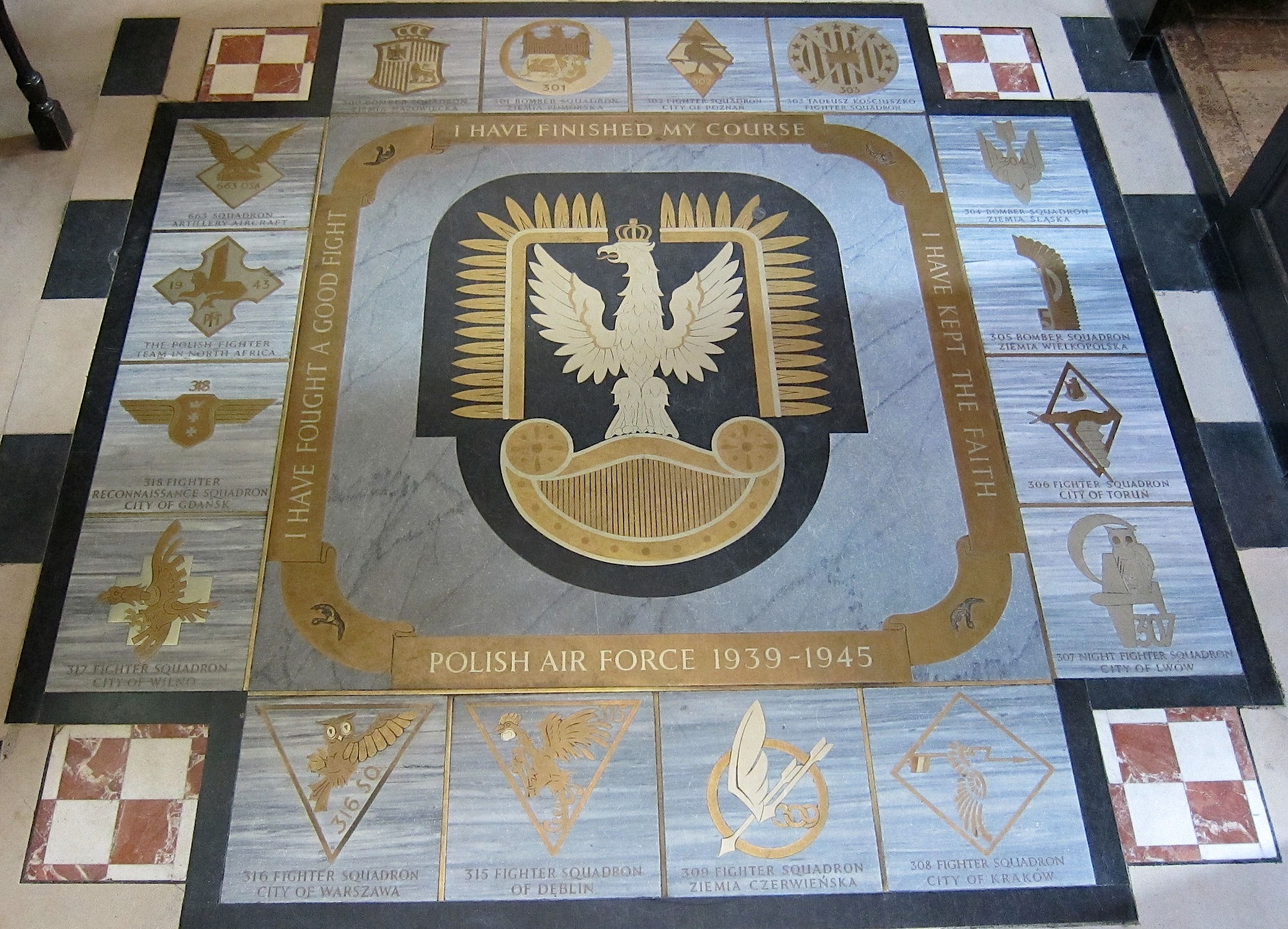 Polish WWII airforce memorial at St Clement Danes, London